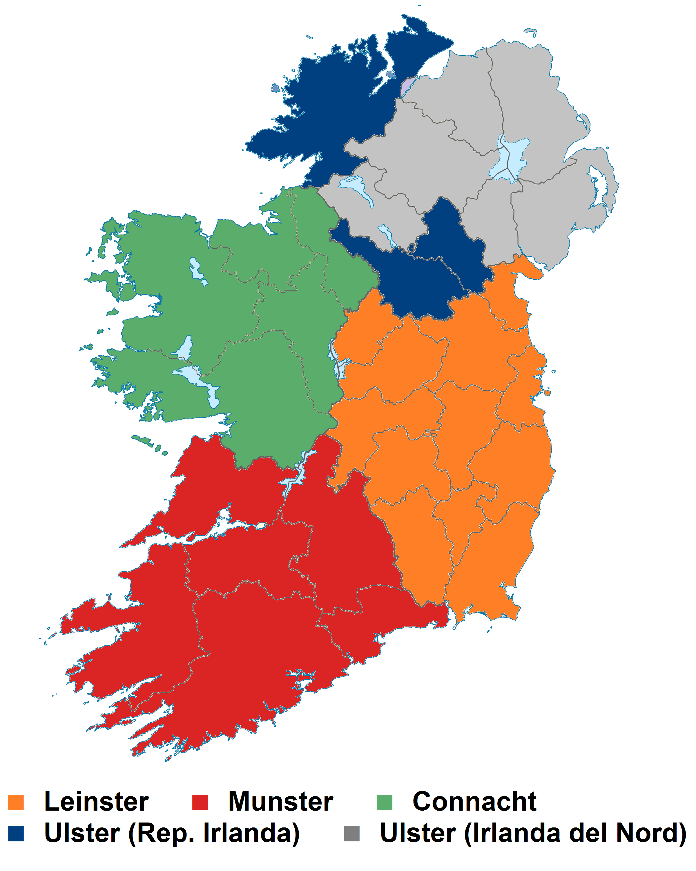 Maps of provinces of Ireland